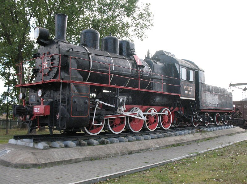 Old locomotive located nearby the Minsk- Gomel railway in Asipovichy (Асiповiчы; Осиповичи) in Mogilev region